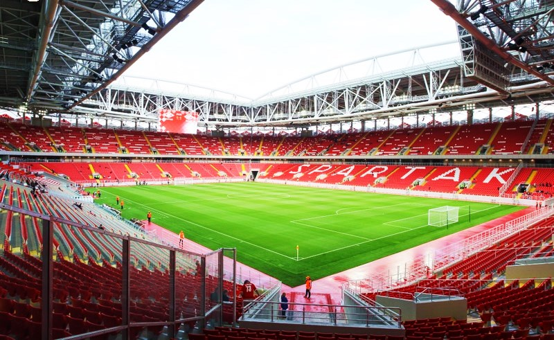 Otkrytie Arena